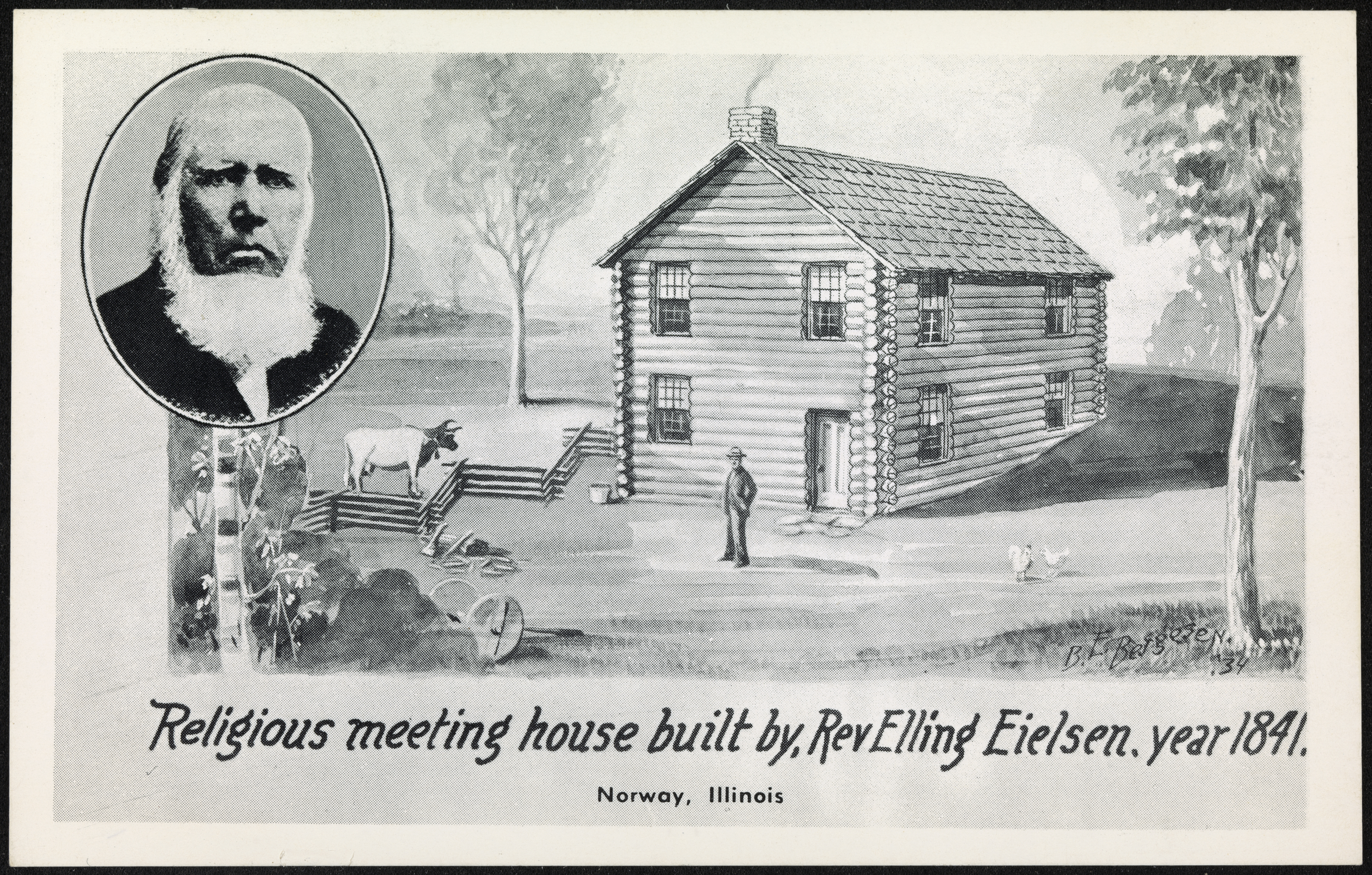 Beskrivelse / Description: Norway, Illinois. First permanent Norwegian settlement in America. Founded in 1834. Dato / Date: utgitt 1934 / published 1934 Sted / Place: USA, Illinois, LaSalle County, Norway Fotograf / Photographer: ukjent / unknown Kunstner / Artist: B. E. Bergesen Utgiver / Publisher: NYCE Manufacturing Co. Digital kopi av original / Digital copy of original: sv/hv postkort, trykt Eier / Owner Institution: Nasjonalbiblioteket / National Library of Norway Lenke / Link: Bildesignatur / Image Number: blds_09157